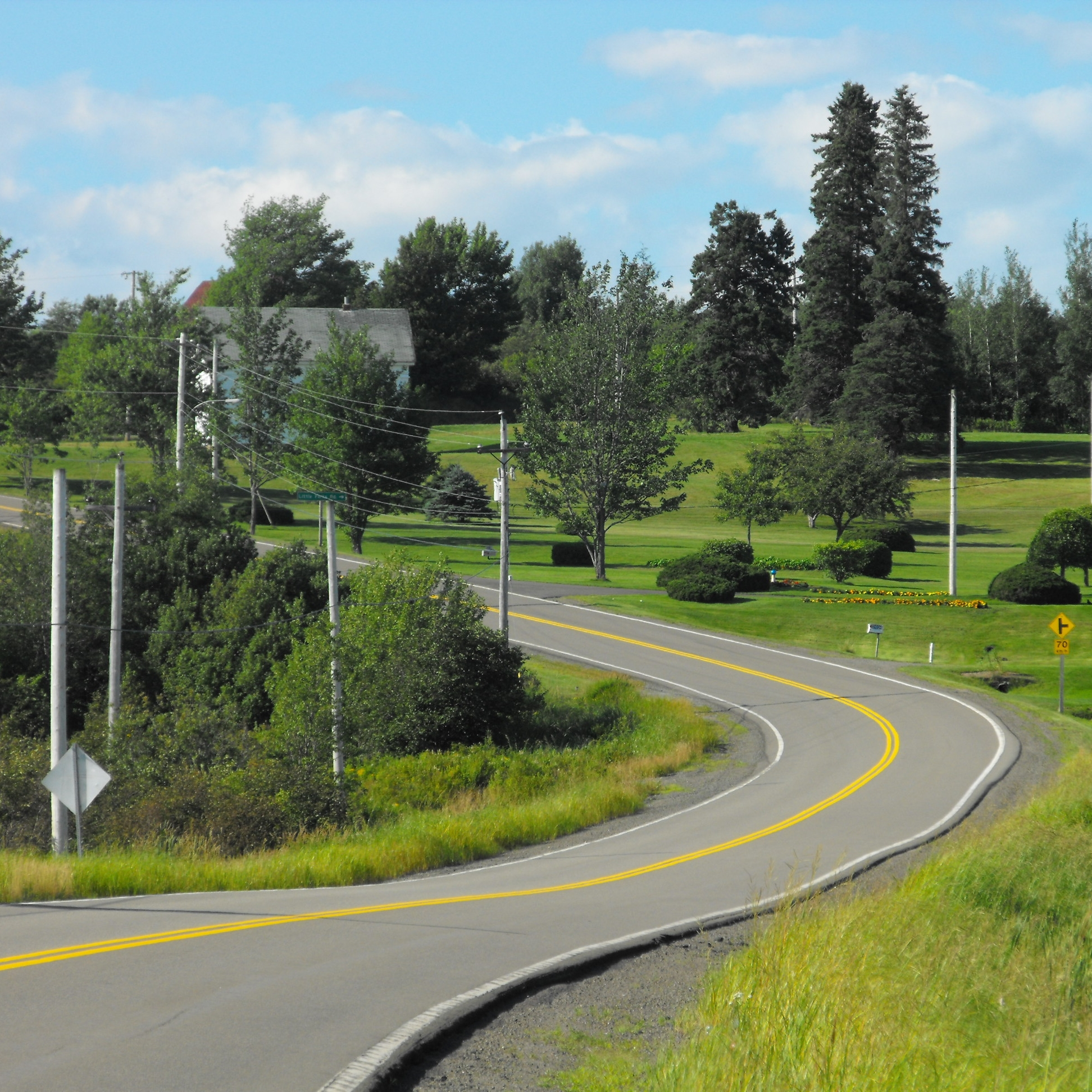 Route 302 Athol, Cumberland County, Nova Scotia, 2011